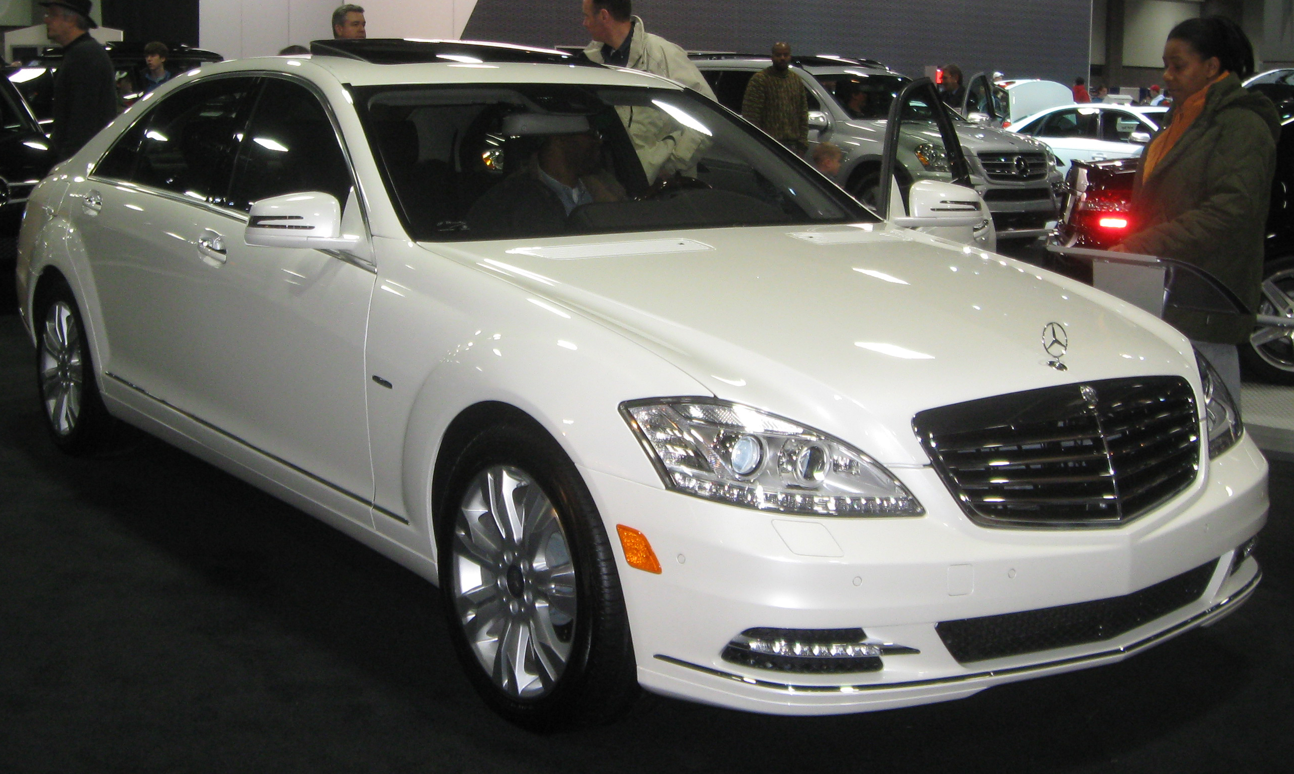 2010 Mercedes-Benz S400 photographed at the 2010 Washington Auto Show.